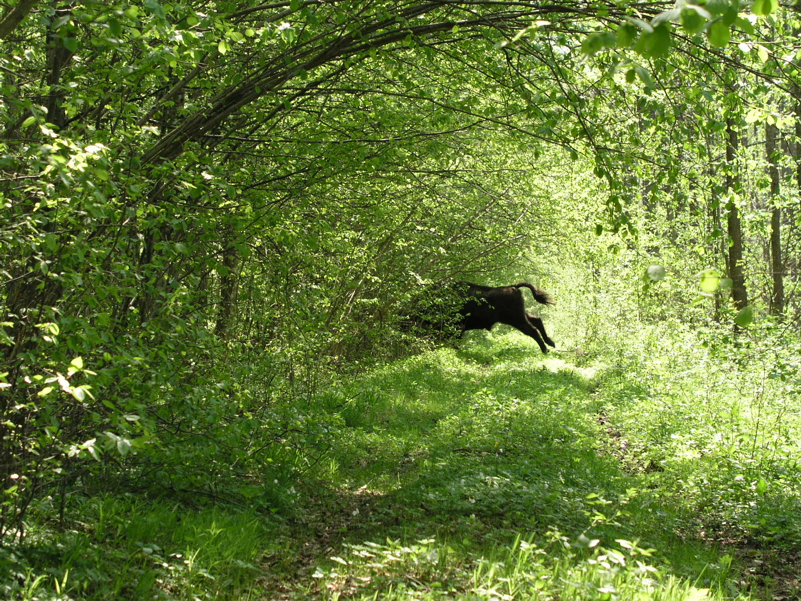 Bison in Białowieża Forest.